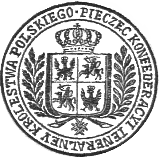 Seal of the General Confederation of the Kingdom of Poland